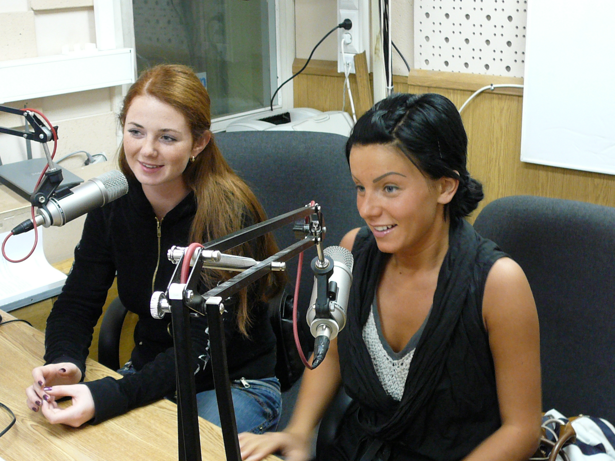 April 6 (Sunday) at 11:59 PM (Moscow time) Singers Lena Katina and Julia Volkova from t.A.T.u. as guests of Echo of Moscow Radio /91,2 FM/, in the music program Argentum (